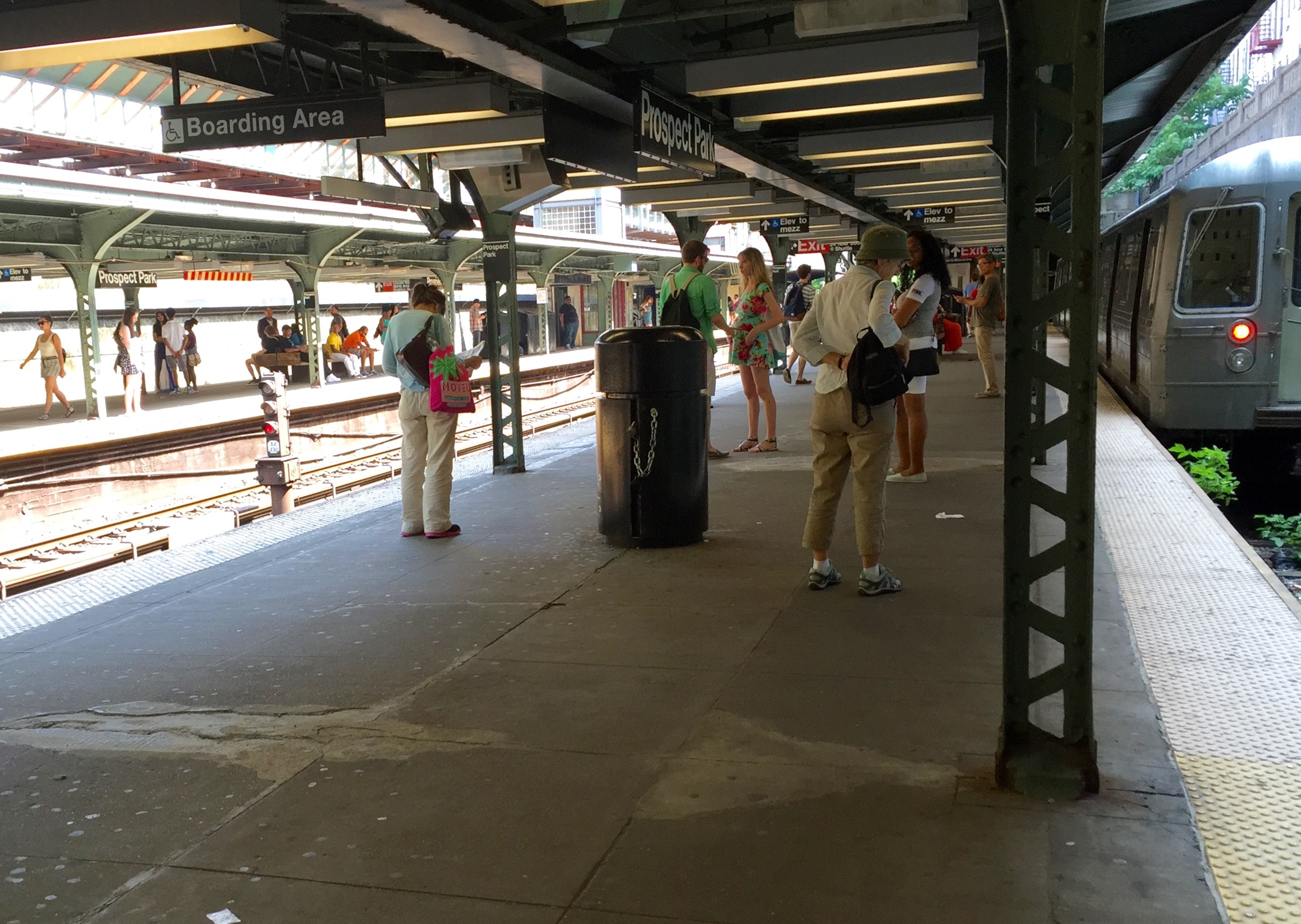 Coney Island bound platform at Prospect Park on the B/Q/S.